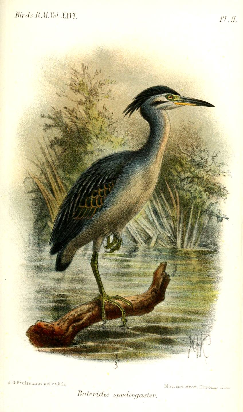 Butorides spodiogaster = Butorides striata spodiogaster, Striated Heron ssp.